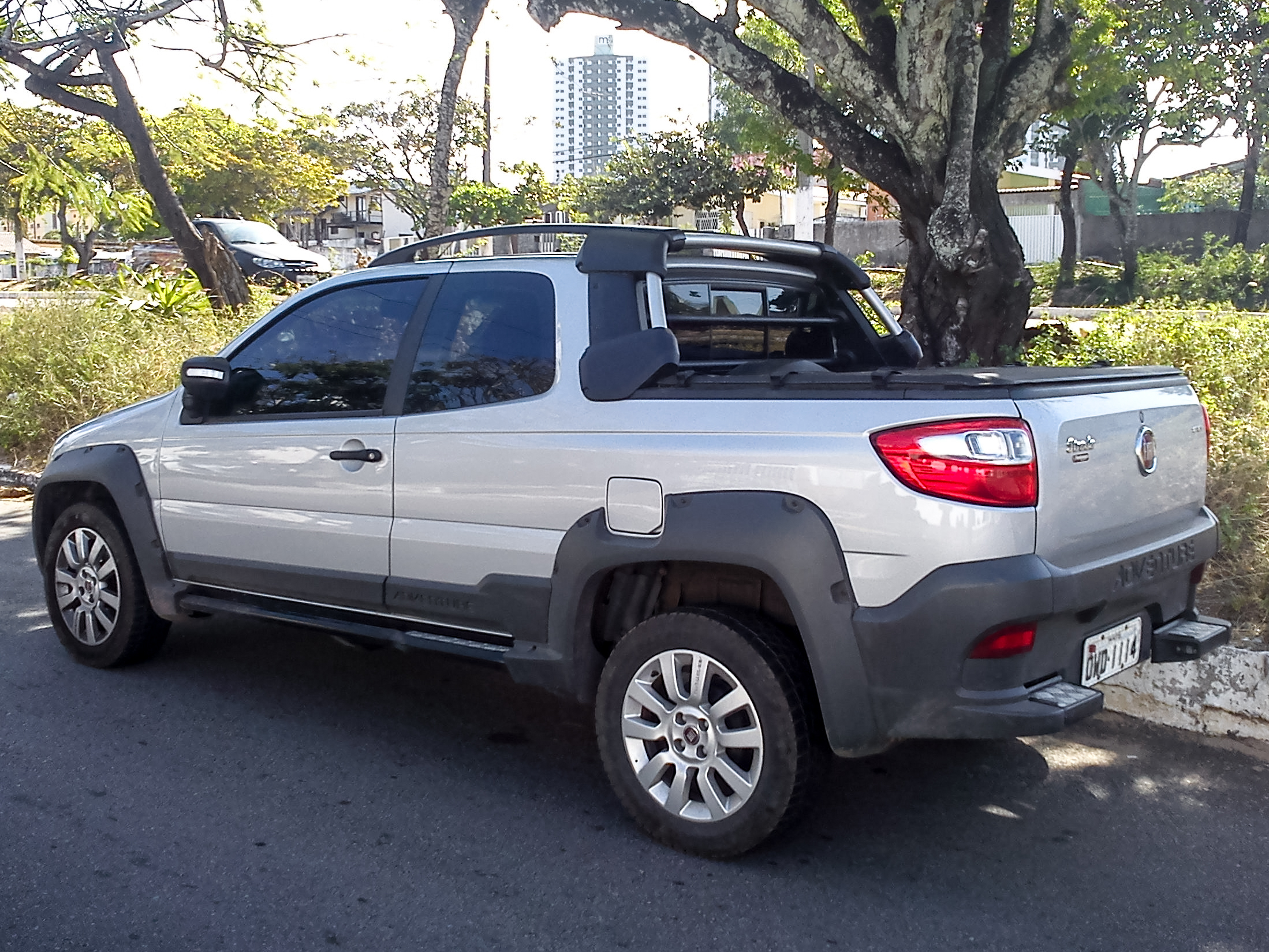 Fiat Strada Mk V